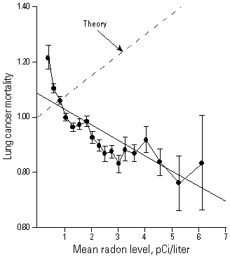 Lung cancer mortality rates corrected for smoking compared with mean home radon levels by U.S. county and comparison with BEIR IV linear model. Observed mortality risk is 1.00 at 1.7 pCi/liter, the average U.S. residential radon level. Adapted from Cohen (Cohen BL. Test of the linear no-threshold theory of radiation carcinogenesis in the low dose, low dose rate region. Health Phys 68:157-174 (1995).). 5 pCi/l ~ 200 Bq/m3